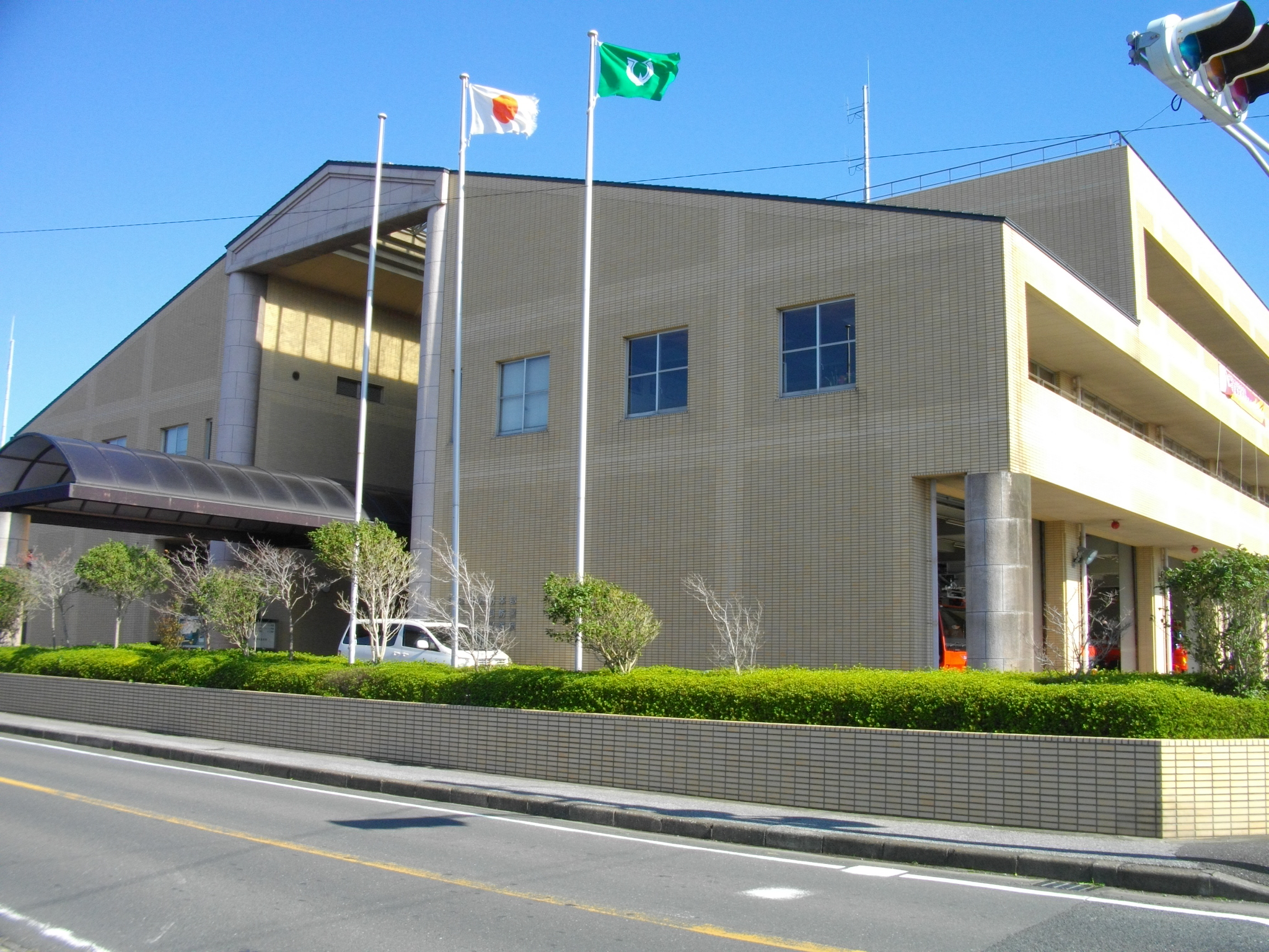 Kimitsu City Fire Department